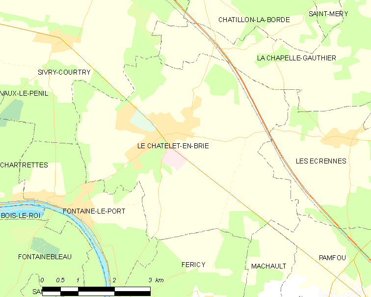 Map of French municipality Le Châtelet-en-Brie